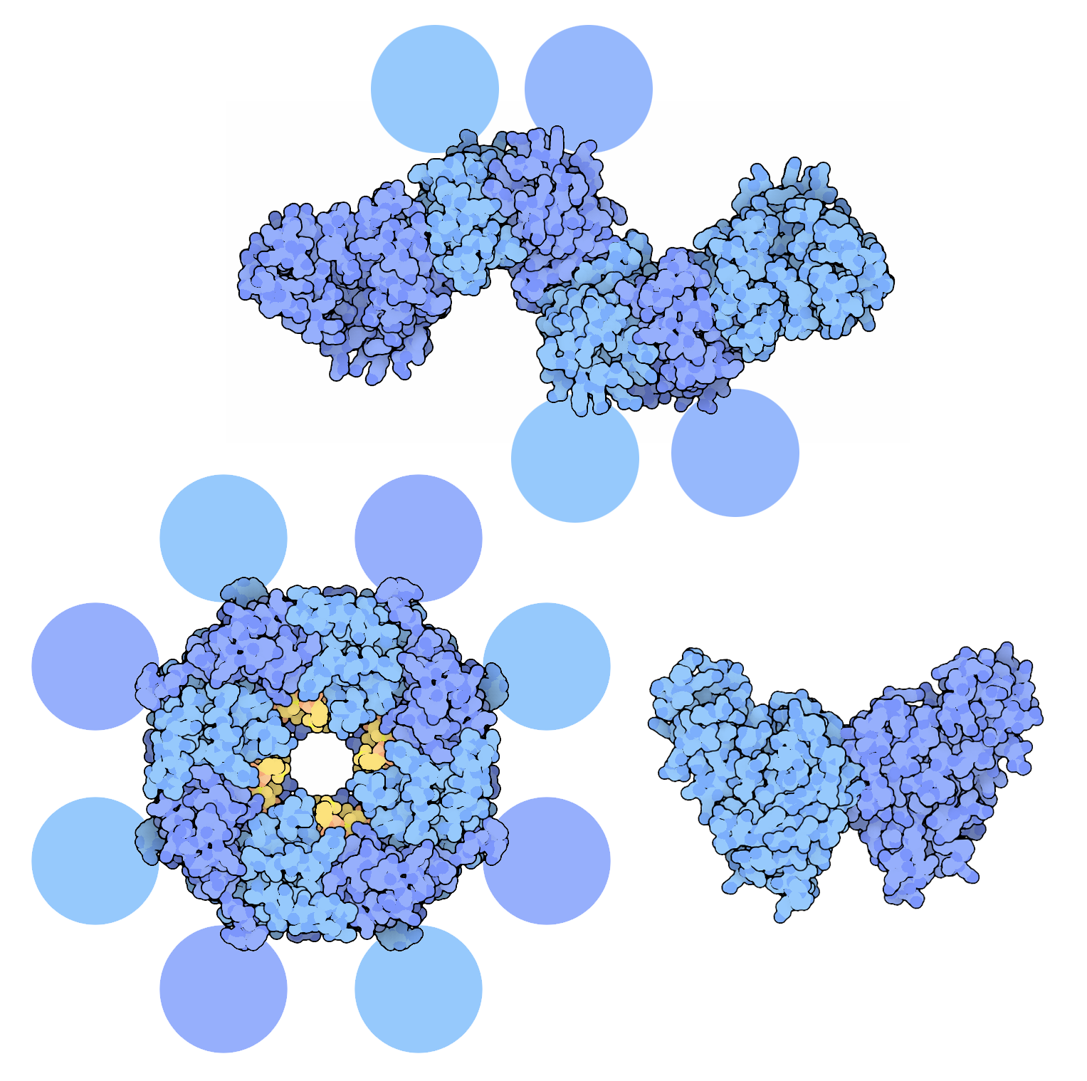 Space-fill drawings of the different structures the Ebola virus matrix protein (VP40) adopts in its three different functional roles: virion hexamer, transcription-regulating octamer, and transport dimer. Pale circles represent domains too flexible to be observed in the experimental structure. Drawn by David Goodsell from PDB files 4ldd, 1h2c, and 4ldb.